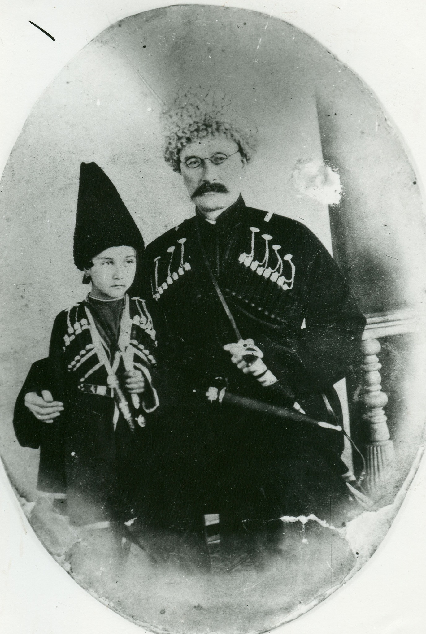 Khasay khan with his son Mekhiquli khan (husband and son of Khurshidbanu Natavan)